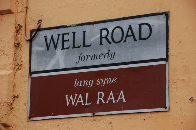 Street sign, Ballywalter See 184556. This one in on the Well Road, Ballywalter (also “Whitkirk”).